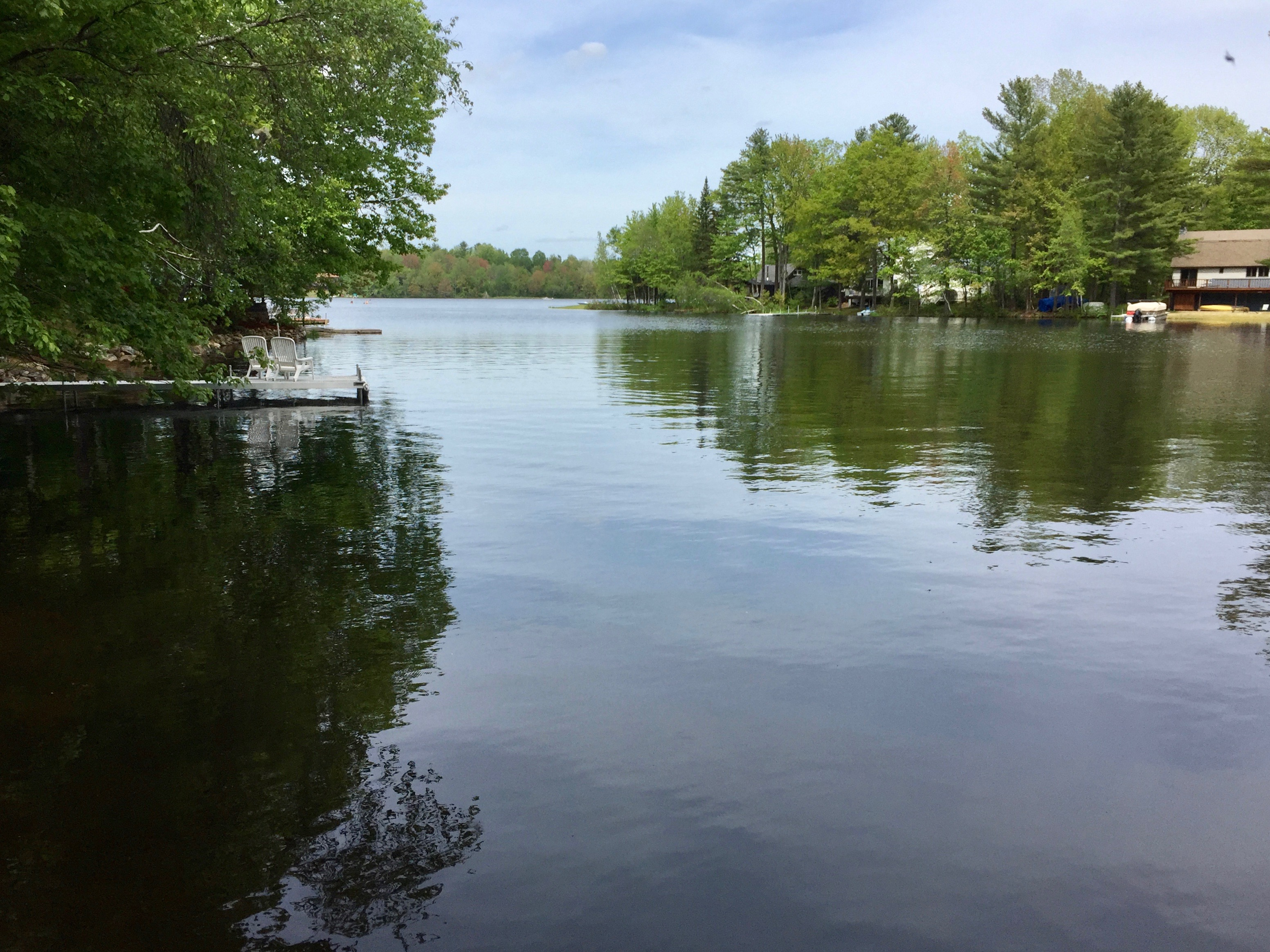 Locke Lake in Barnstead, New Hampshire, near outlet